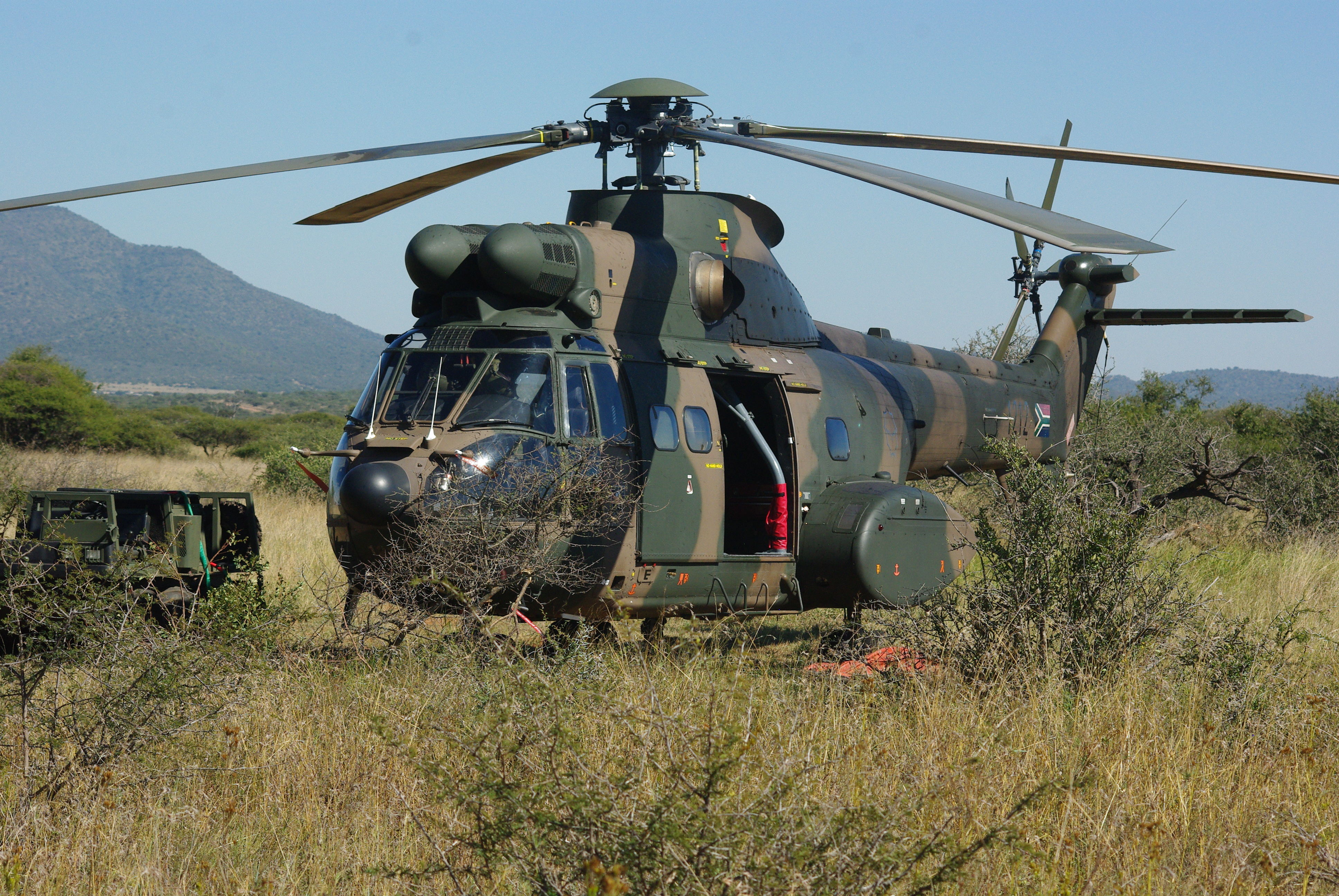 Roodewal Weapons Range 09/05/13 Roodewal Weapons Range